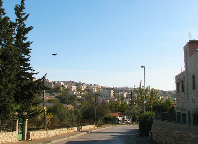 Photo by Gila Brand. This is my own work. Beit Safafa, Jerusalem, December 2007